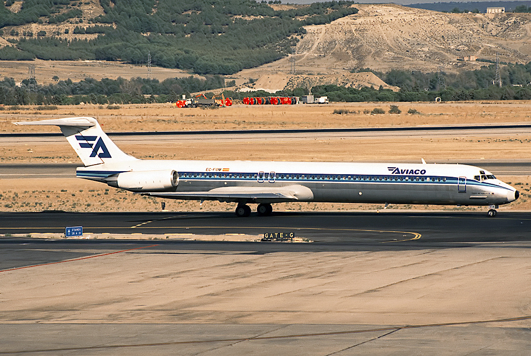 An Aviaco McDonnell Douglas MD-88 at Barajas Airport (MAD / LEMD)